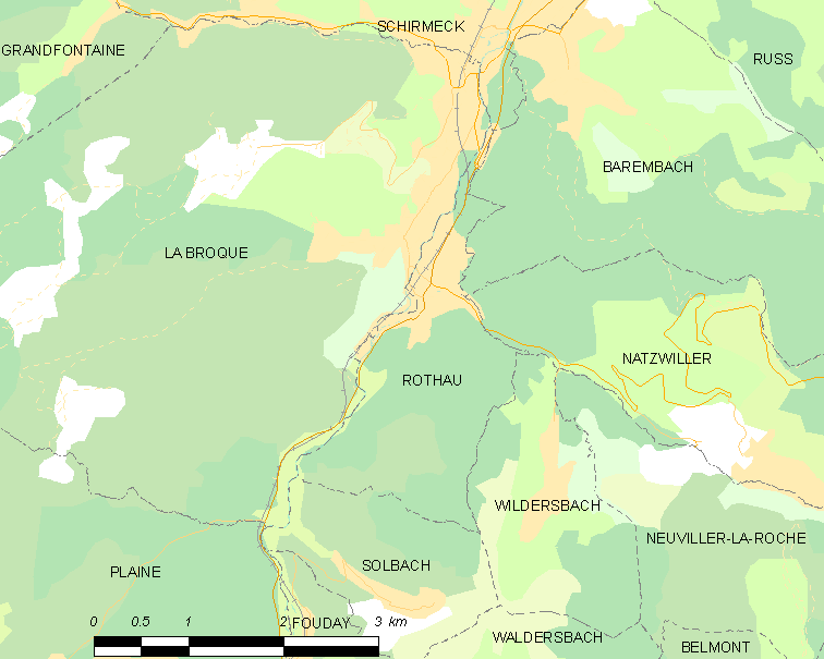 Map of French municipality